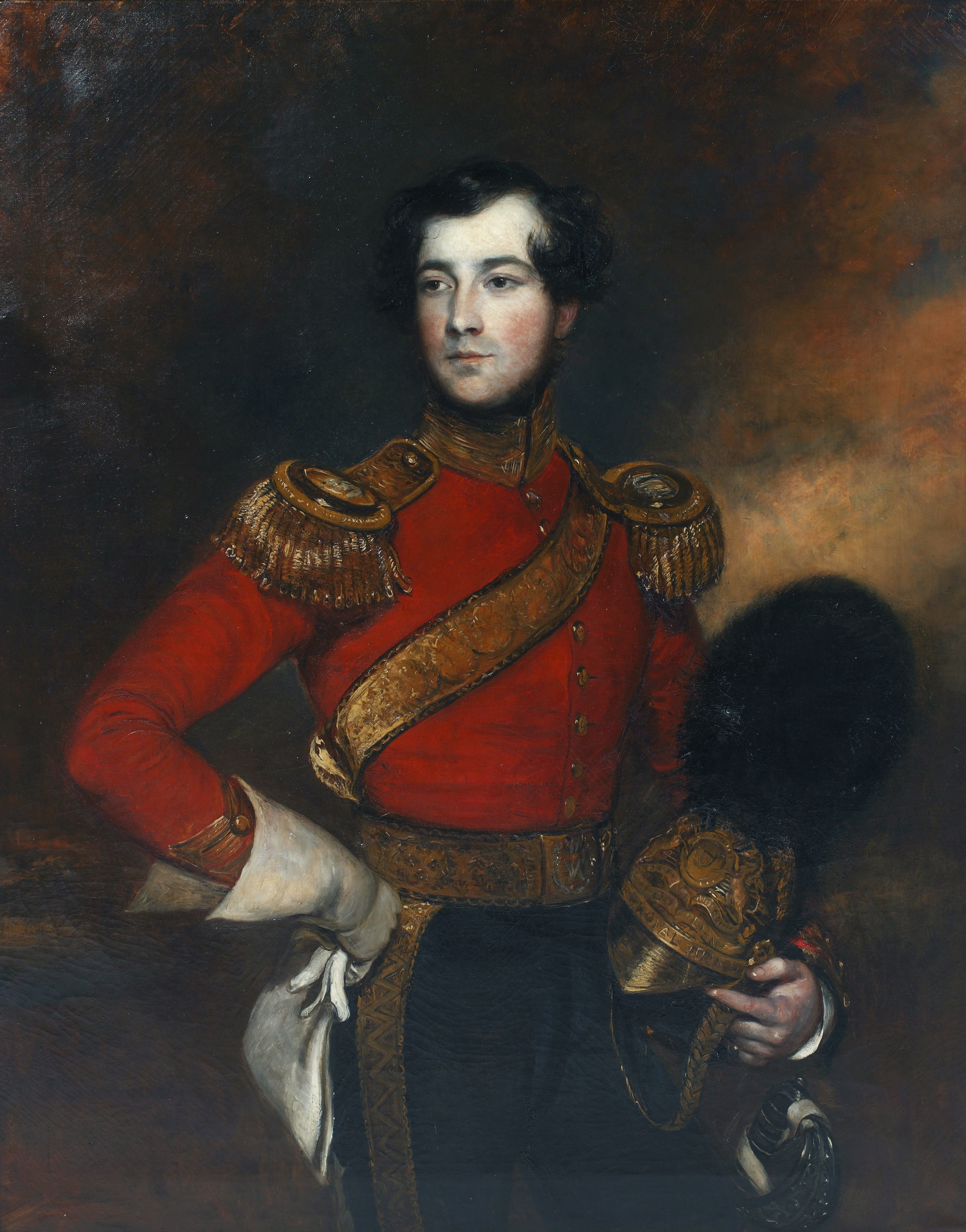 Lieutenant Charles Phillip de Ainslie oil on canvas 125 x 100cm inscribed verso: Lieut General / Charles Philip Anslie / by / Hurlstone R.A